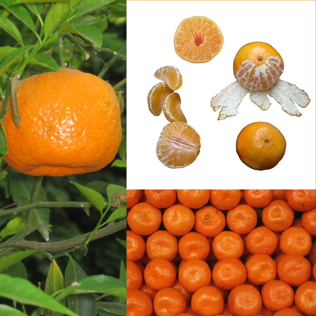 Clementines differ from mandarins.